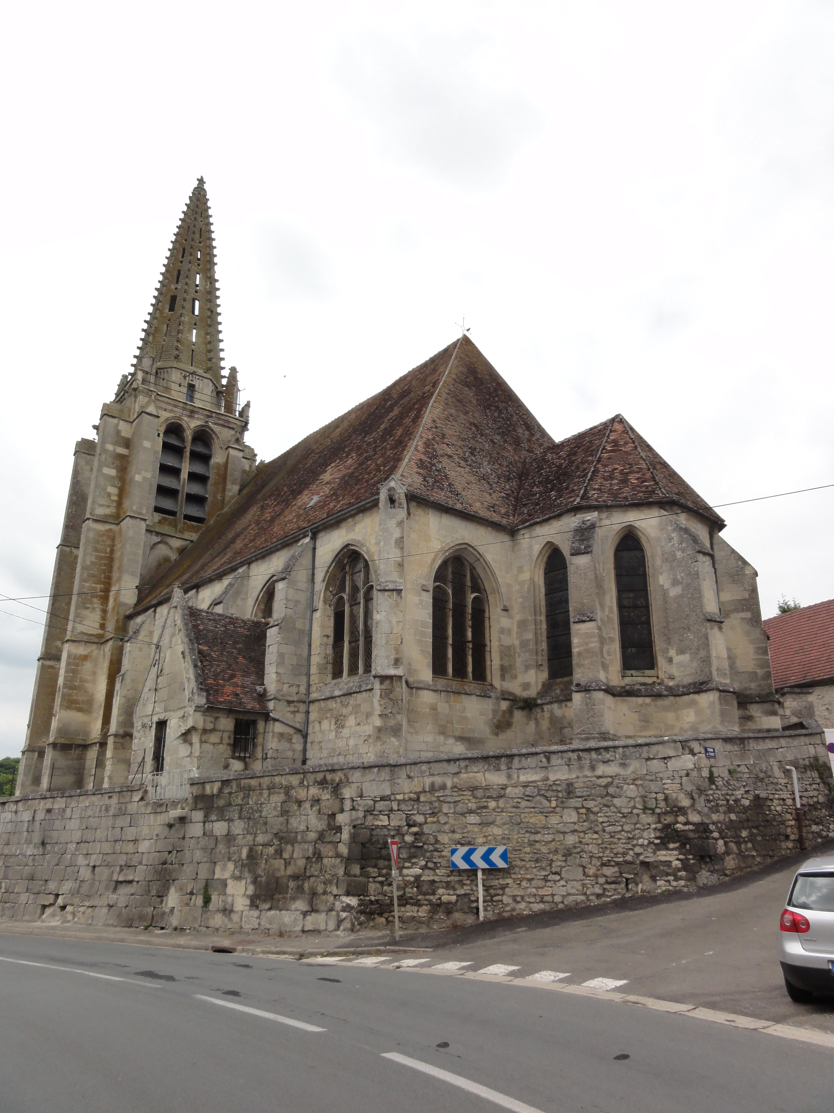 Taillefontaine (Aisne) église